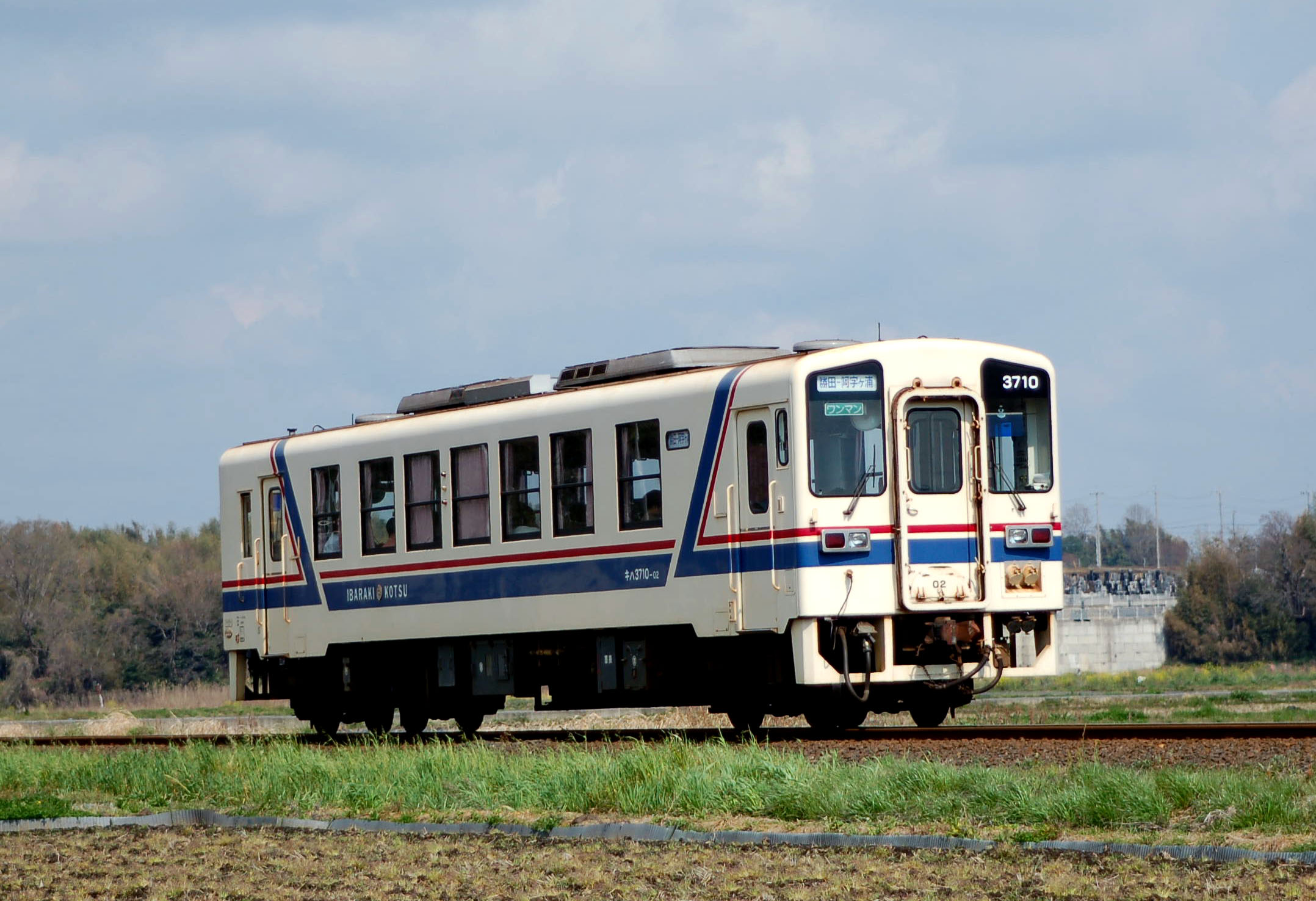 Ibaraki Kotsu type Kiha 3710 diesel car